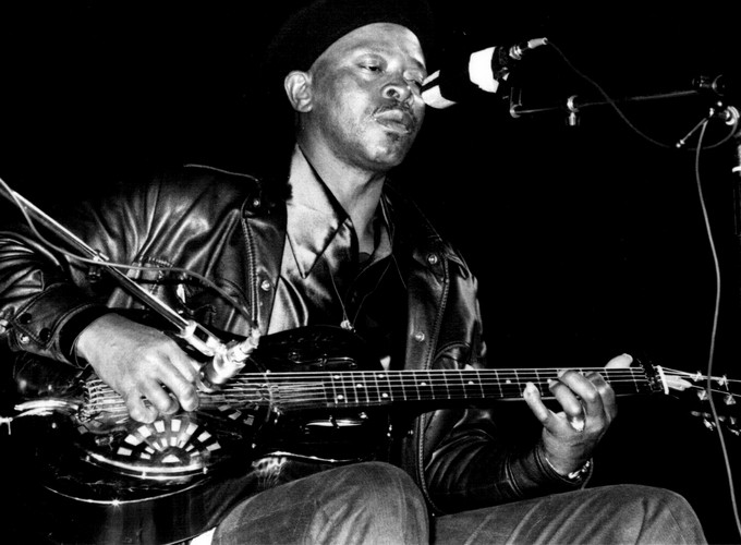 American blues singer and guitarist Robert Lowery in France.